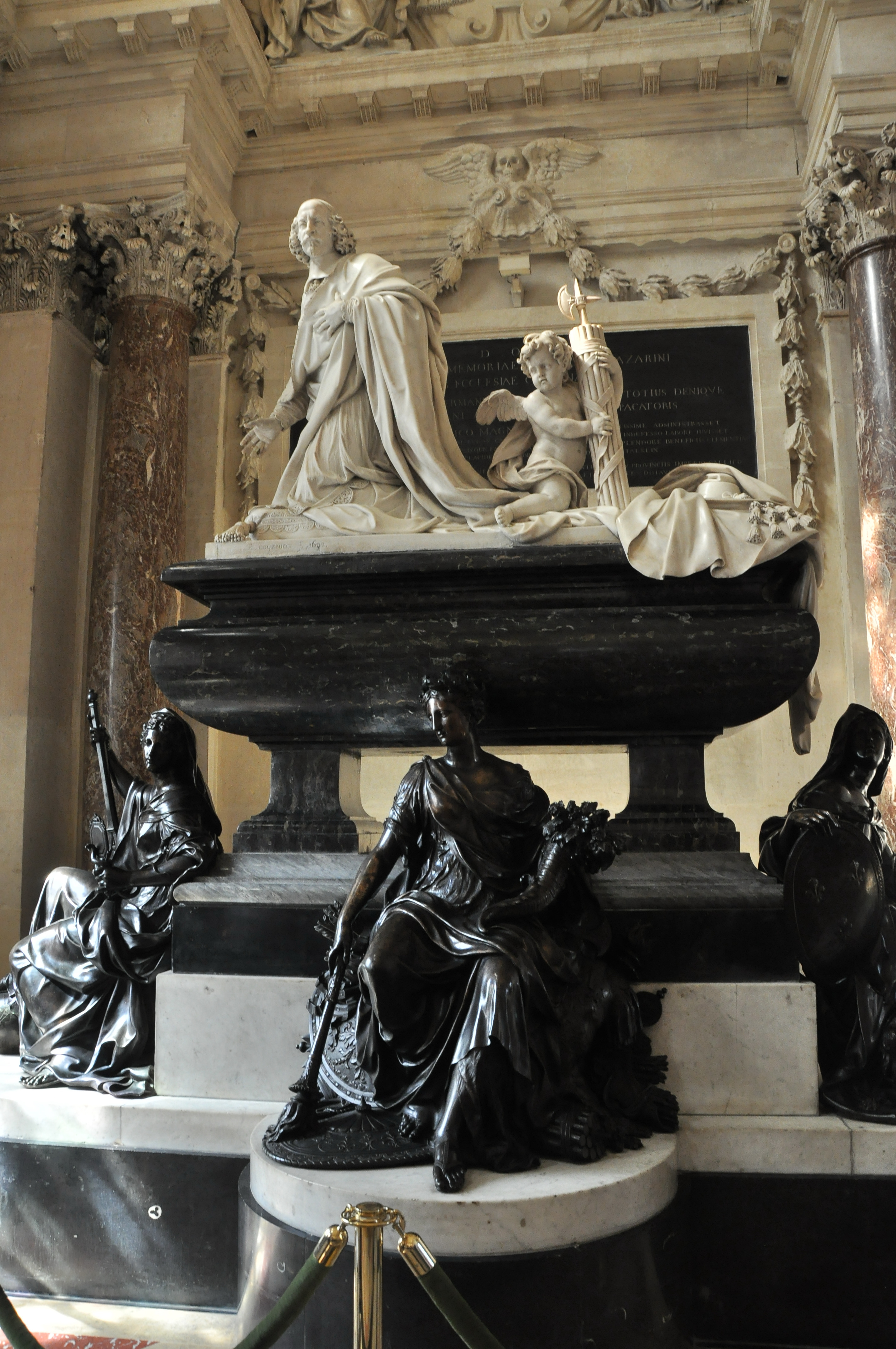 Cenotaph of Mazarin at Institut de France located in the 6th arrondissement of Paris in France.